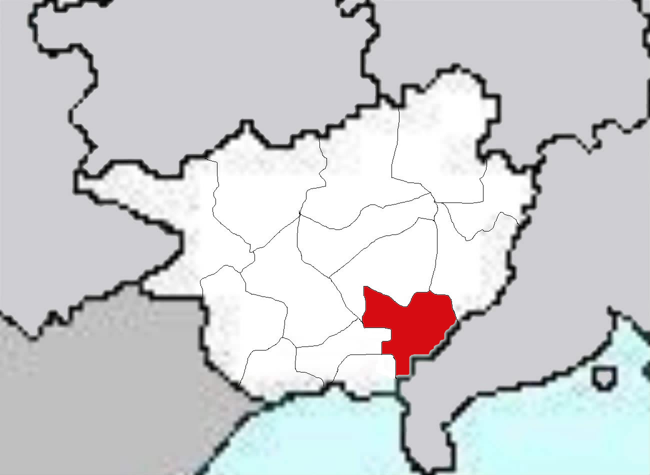 Maps of Guangxi Autonomous Region of China.